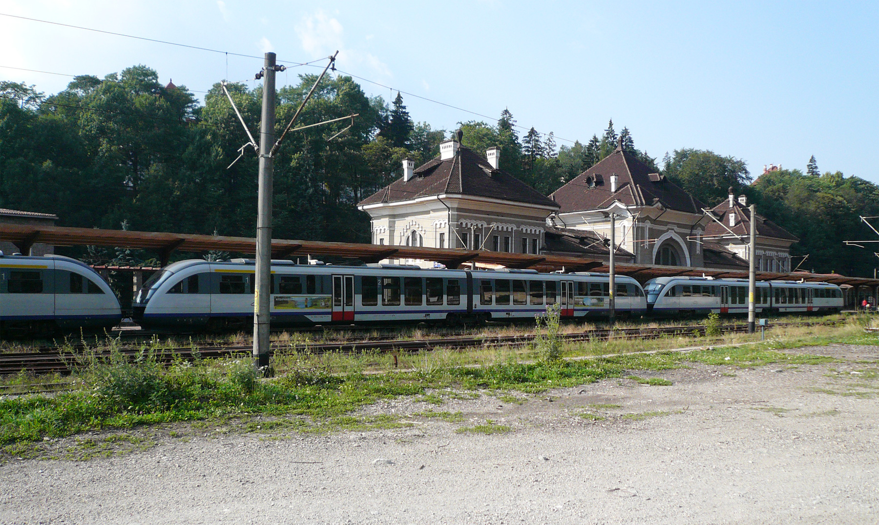 Railway station in Sinaia, Romania